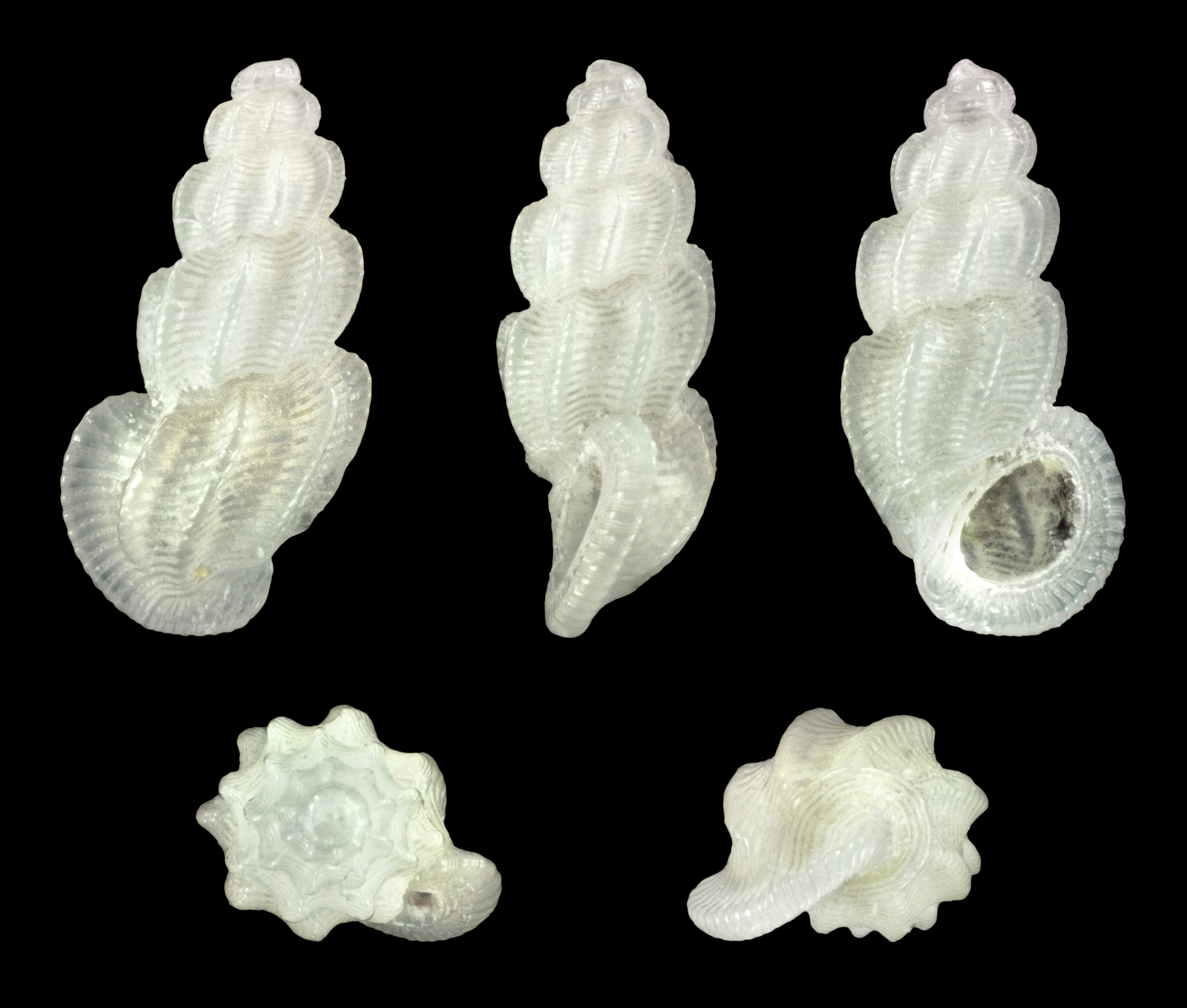 Manzonia crassa forma exigua Michaud, 1830 ; Length 0.31 cm; Originating from Punta Corrente south of Rovinj, Croatia 45°3′54.67″N 13°38′18.36″E / 45.0651861°N 13.6384333°E; Shell of own collection, therefore not geocoded. Dorsal, lateral (right side), ventral, back, and front view.